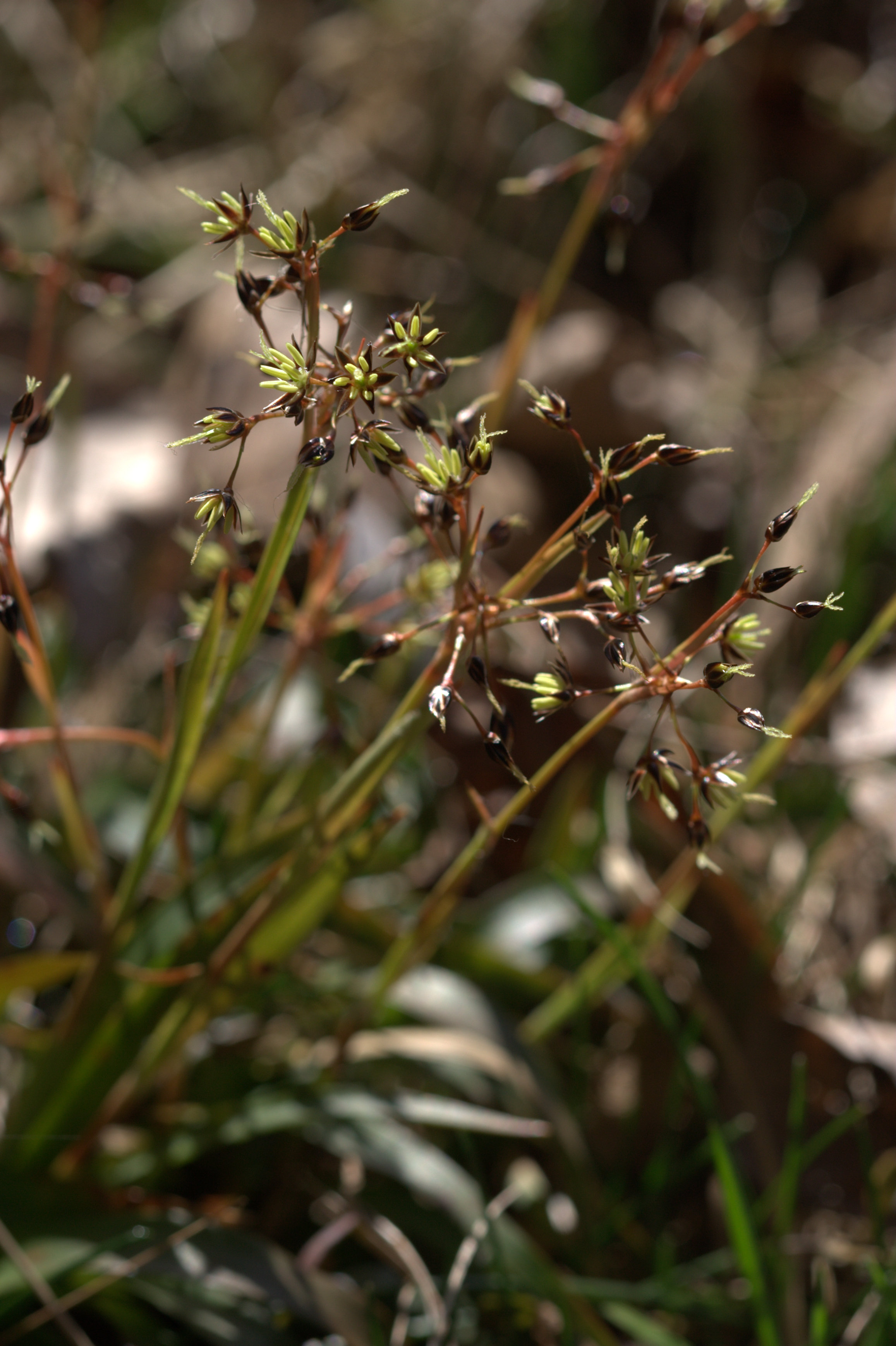 Luzula pilosa with flowers